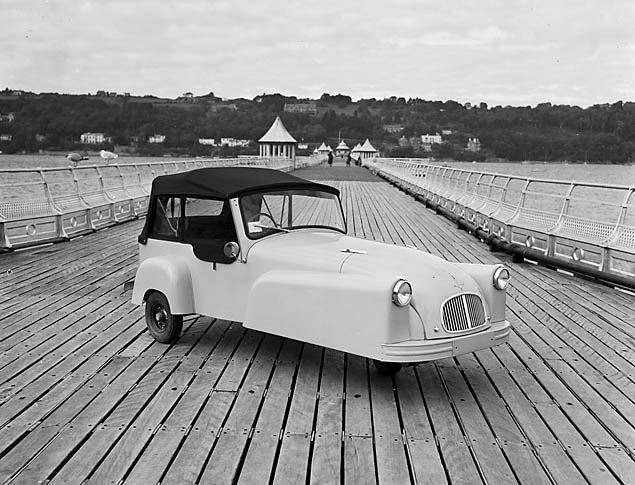 Teitl Cymraeg/Welsh title: Profi'r Bond Minicar Ffotograffydd/Photographer: Geoff Charles (1909-2002) Dyddiad/Date: 29/10/1954 Cyfrwng/Medium: Negydd ffilm / Film negative Cyfeiriad/Reference: (gch06982) Rhif cofnod / Record no.: 3368013 Rhagor o wybodaeth am gasgliad Geoff Charles yn Llyfrgell Genedlaethol Cymru More information about the Geoff Charles Collection at the National Library of Wales Mae ffotograffau Geoff Charles hefyd yn rhan o Broject Europeana Libraries Geoff Charles' photographs also form part of the Europeana Libraries Project